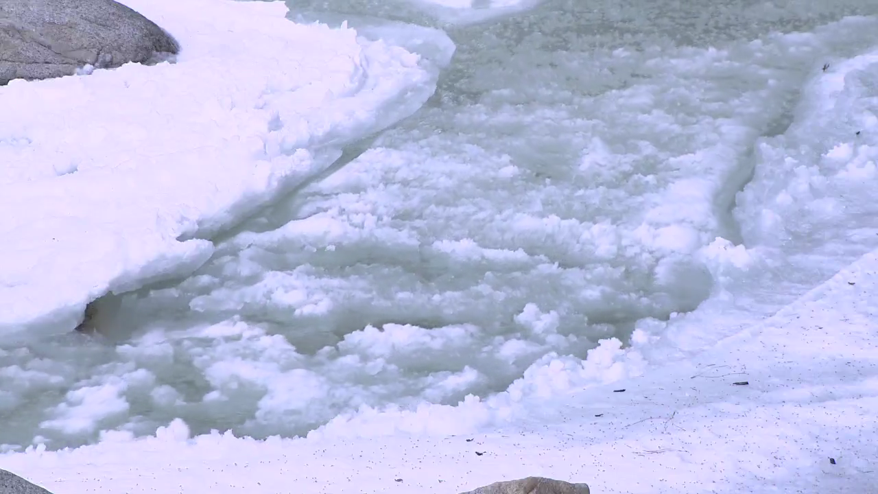 Frazil ice flowing in Yosemite Creek